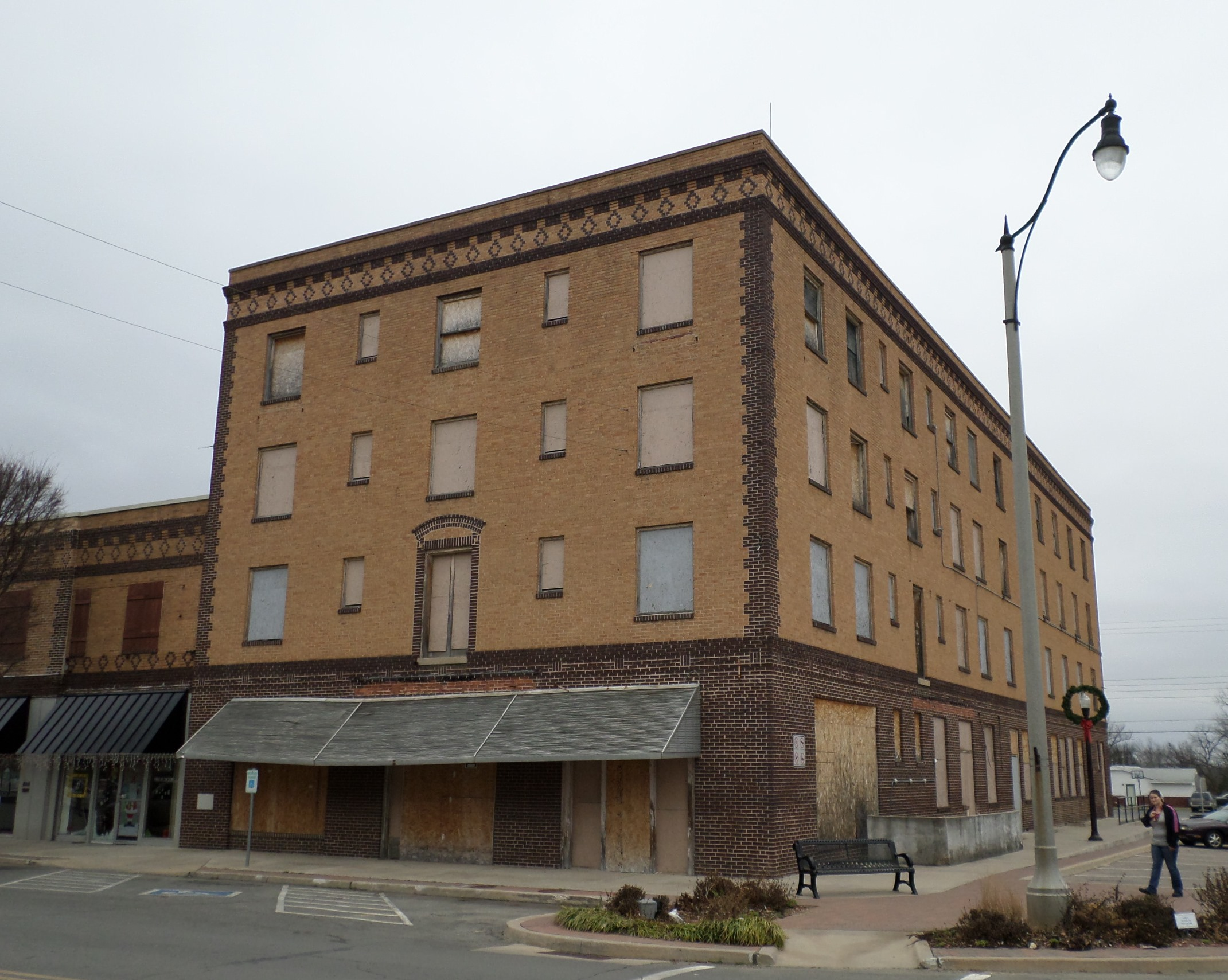 The Hotel Aldridge, located at the northwest corner of S Wewoka Ave and W 3rd St, Wewoka, OK